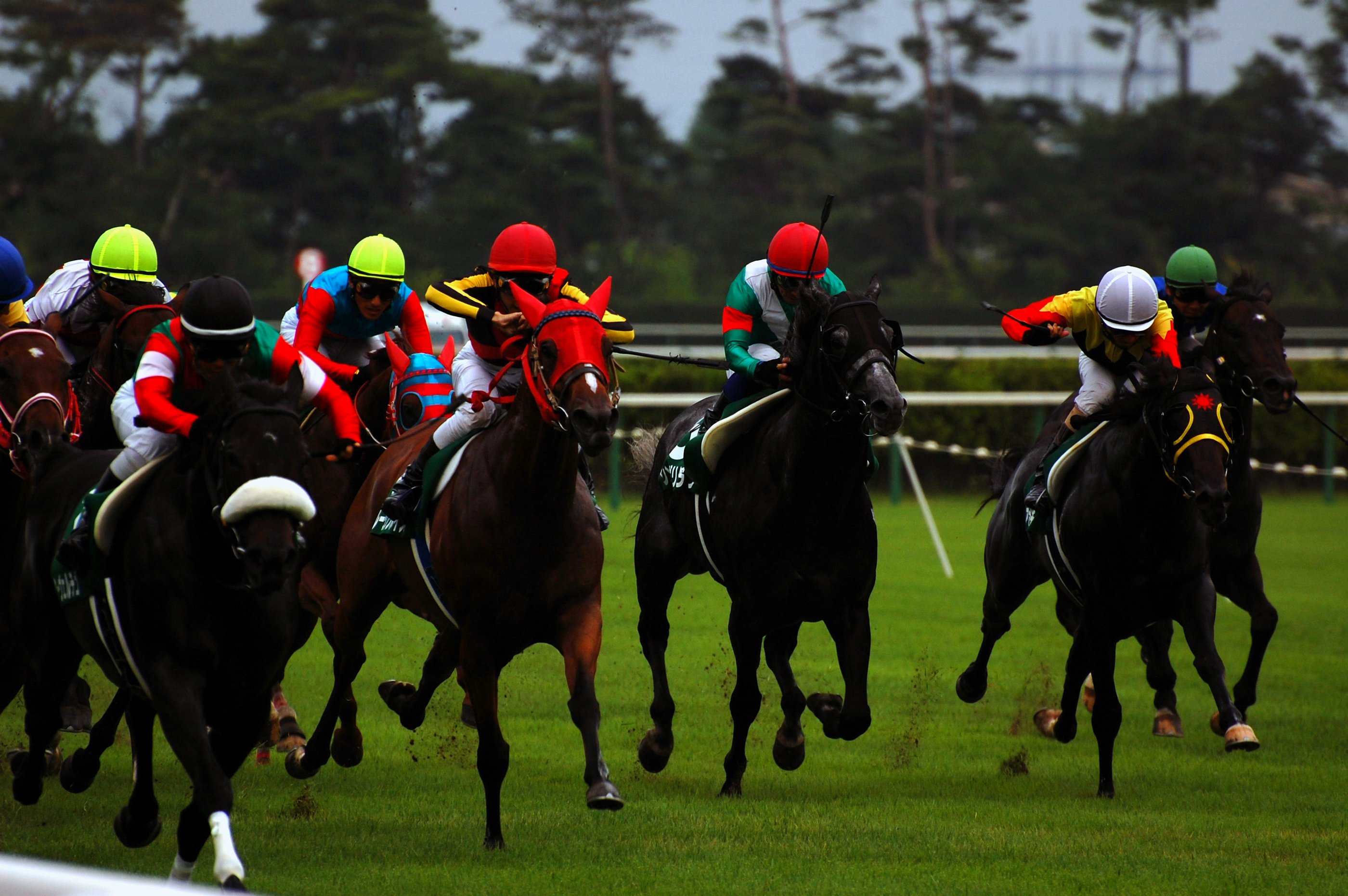 8th Ibis Summer Dash (20,July,2008)